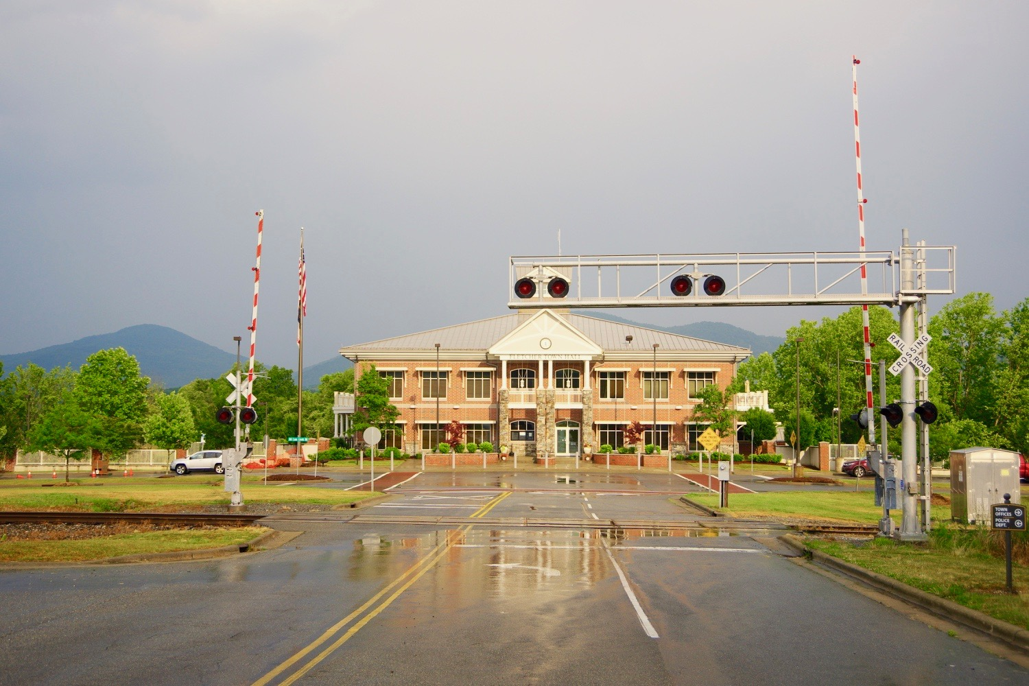 Town Hall in Fletcher, North Carolina, United States. Fanning Bridge Road is in the foreground.